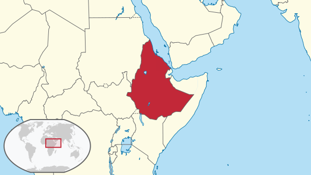 This is a map of Ethiopia and Eritrea attached which is The People's Democratic Republic of Ethiopia, the map of the Derg military junta (1974–1987) and the Federation of Ethiopia and Eritrea (1952-1962). I created the map using the maps of Eritrea and Ethiopia published by TUBS This map is pre-1993.